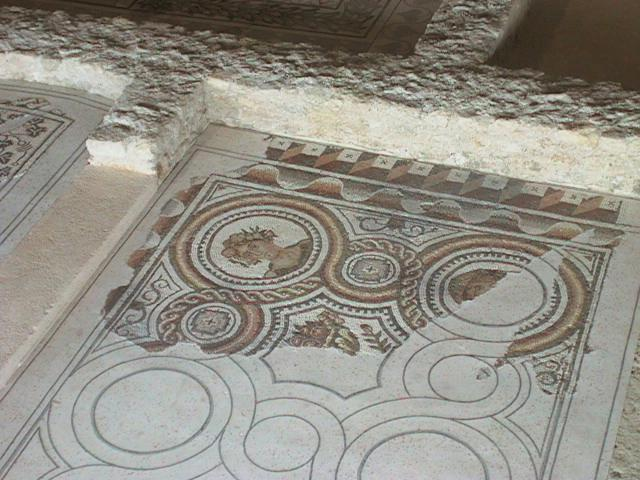 Roman Villa - mosaic